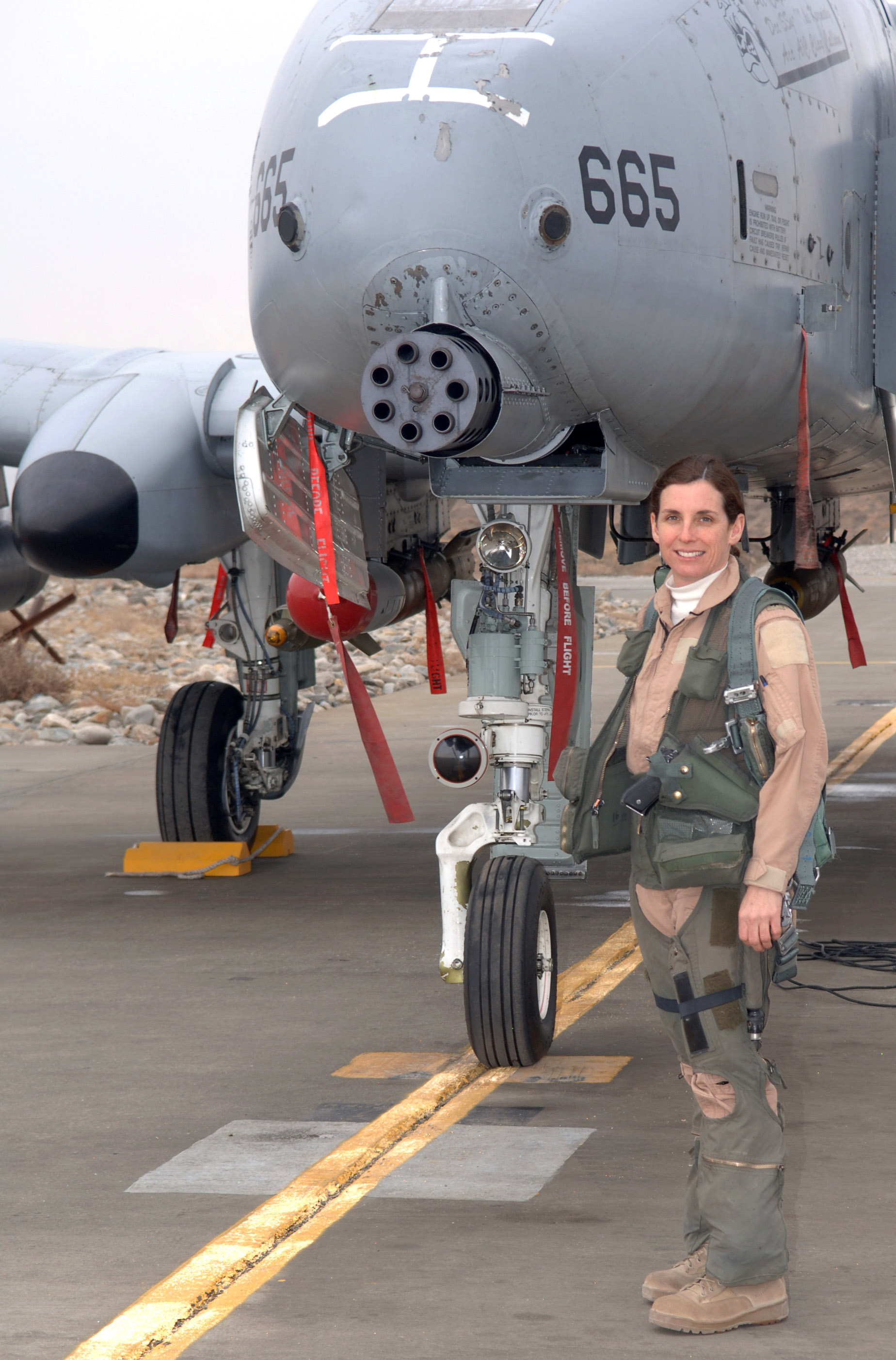 Lt Col Martha McSally, USAF stands with her A-10 Thunderbolt II aircraft. McSally, a 1988 Air Force Academy graduate, is the first female pilot in the Air Force to fly in combat and to serve as a squadron commander of a combat aviation squadron. (U.S. Air Force photo)